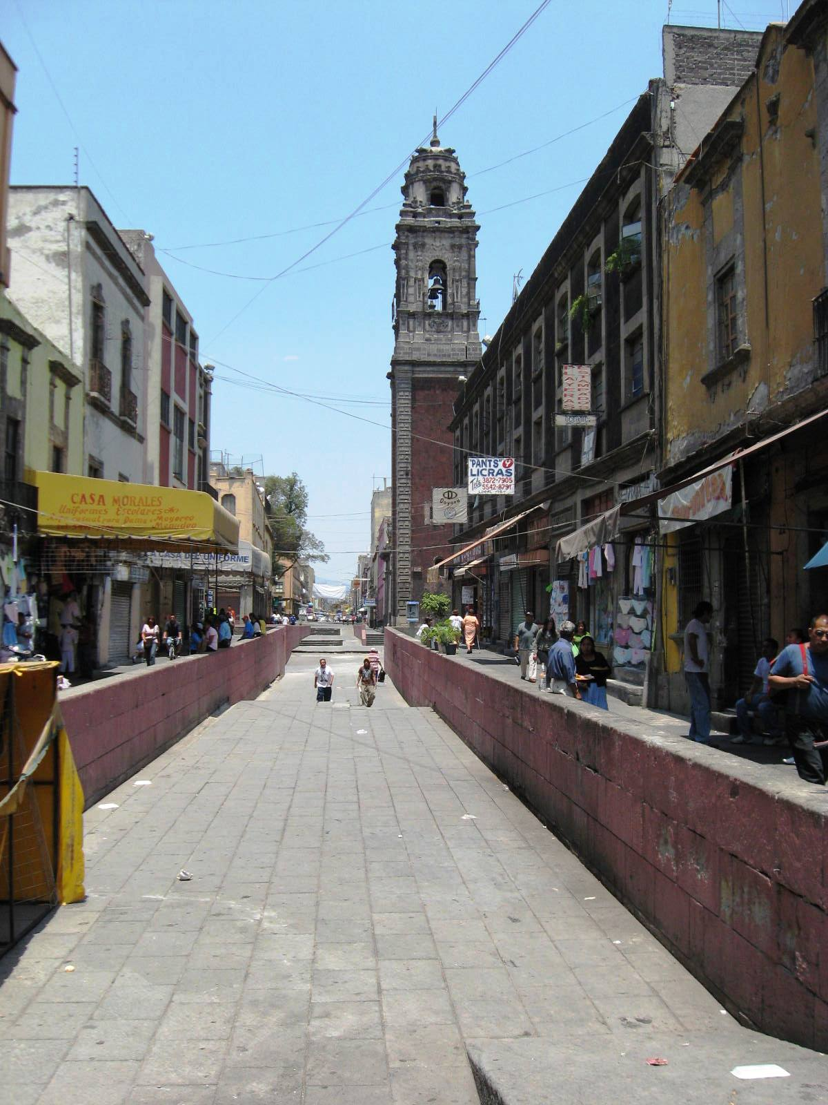 Alhondiga Street looking north and down towards the sinking La Santisima Church in the historic center of Mexico City